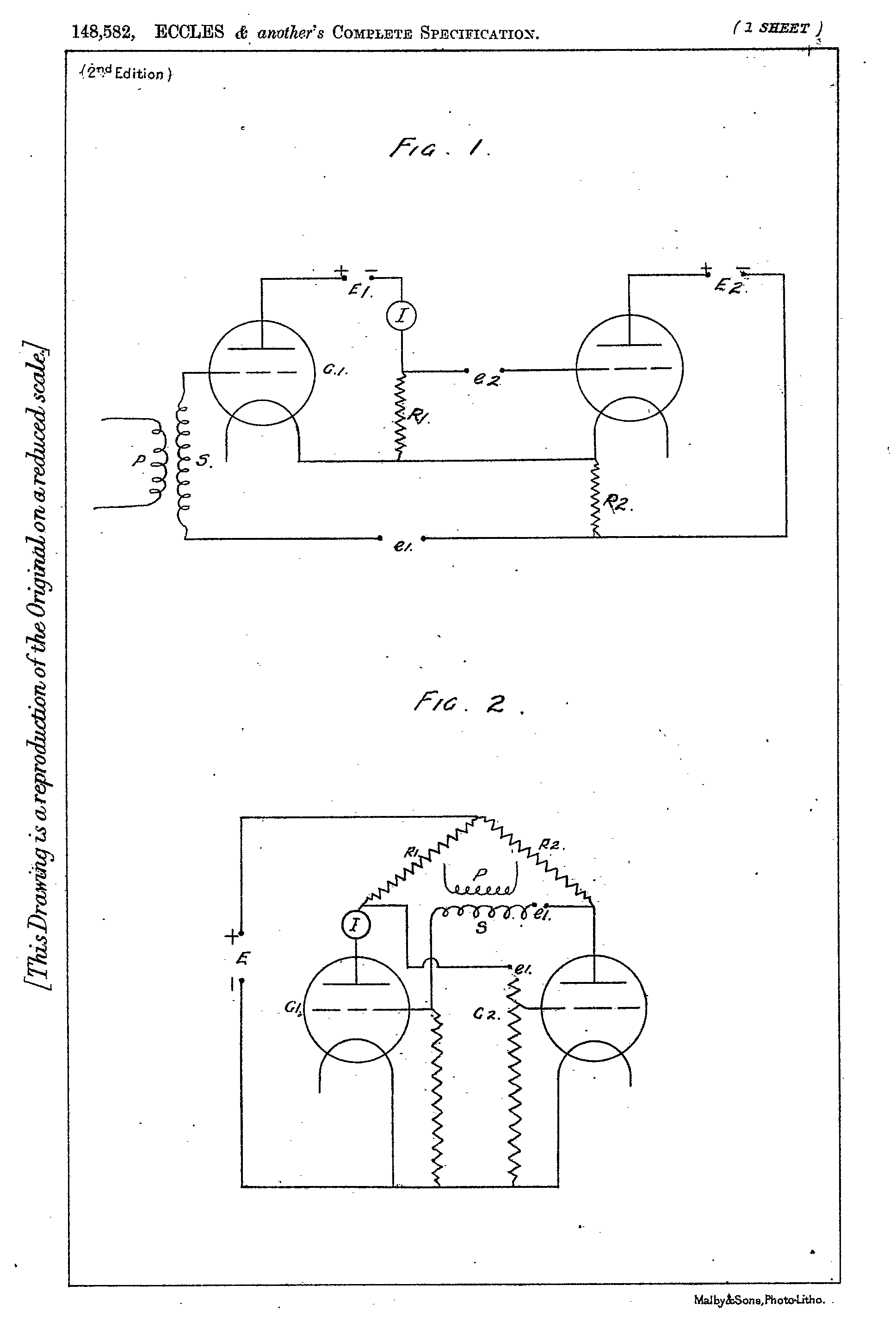 UK patent drawing of Eccles-Jordan trigger circuit (flip-flop).